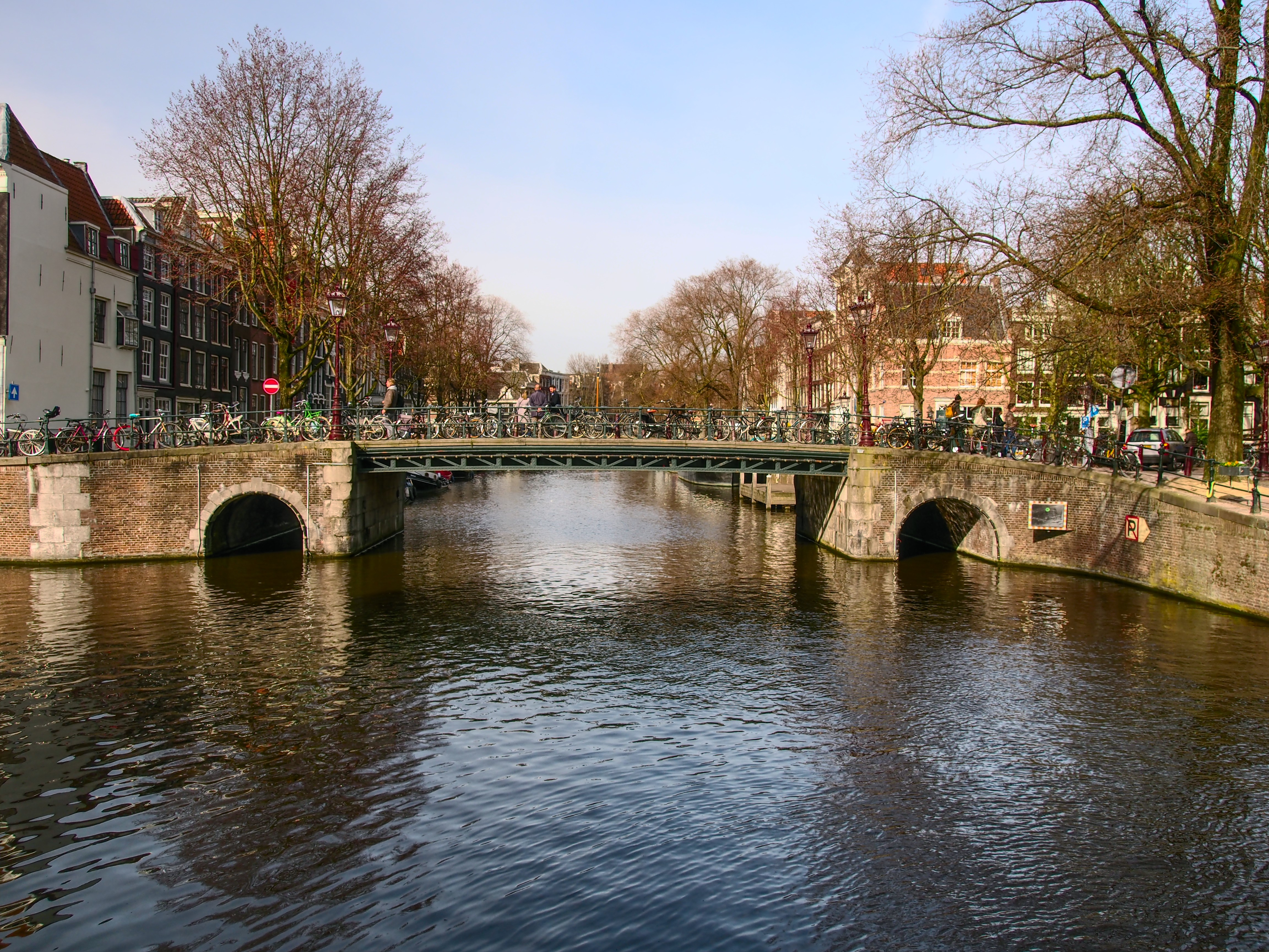 Photo taken at Amsterdam, The Netherlands. Processed with Fusion F.3 (HDR; Mode 1)